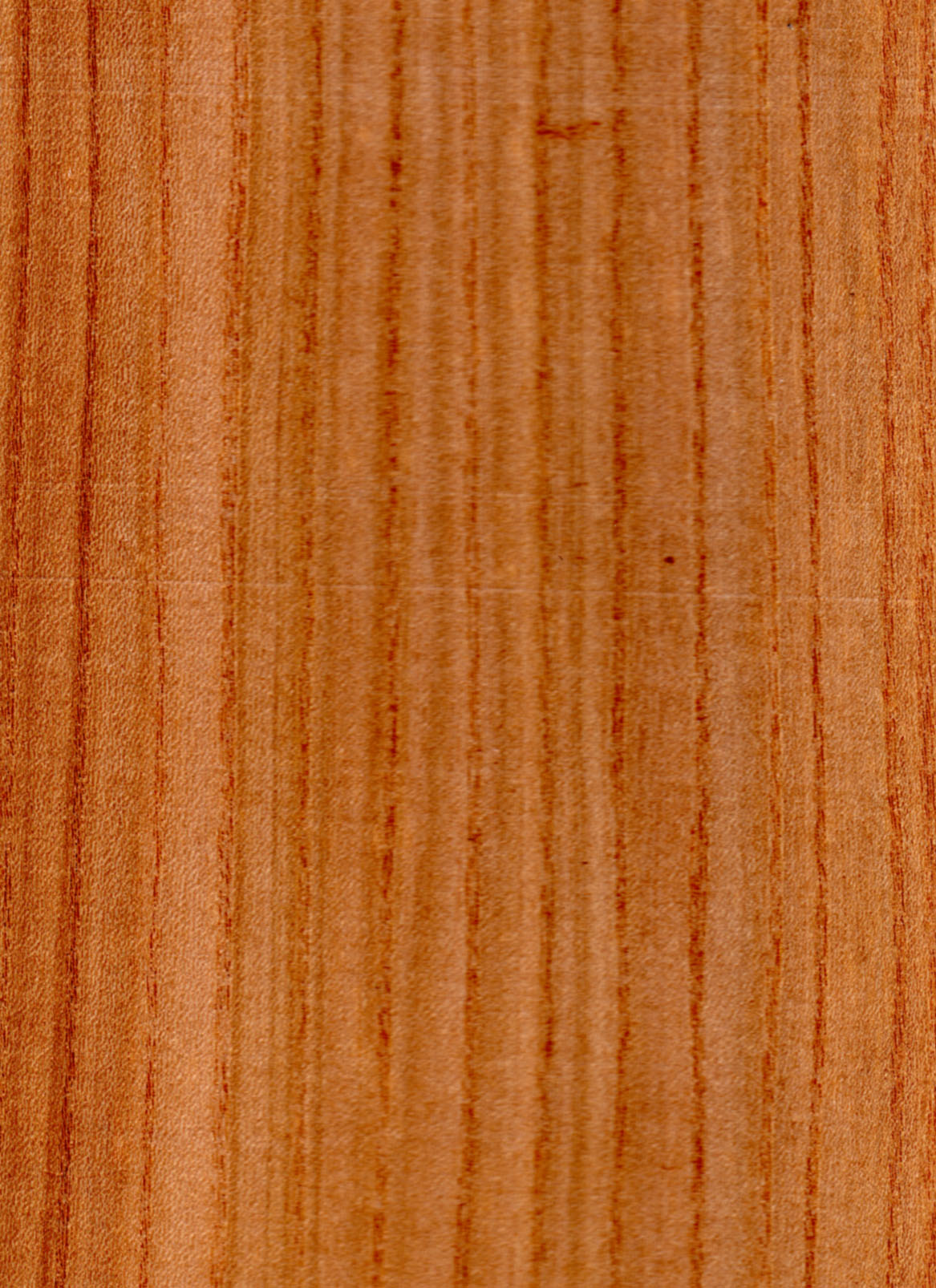 Wood of 'Ulmus glabra